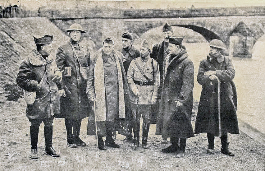 Colonel Edward Lawrence Logan and his staff on the way to the German front at the end of World War I